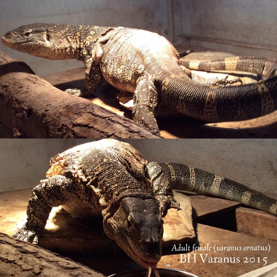 ornate monitor lizard